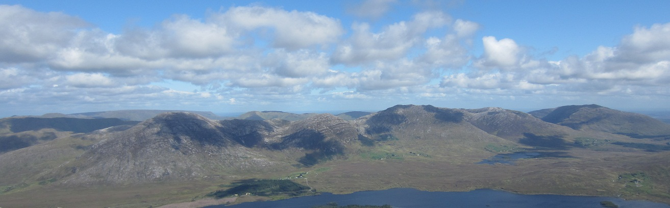 Maumturk mountains looking across from Ben Corr